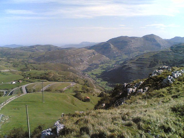 View of Soba valley from the viewpoint of Alisas, Cantabria, Spain, EU.